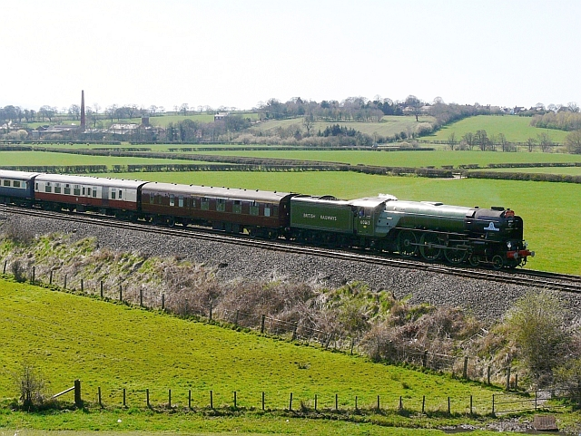 Tornado heading towards Carlisle, Data from Geograph: Description: The Peppercorn class A1 Pacific locomotive No.60163 Tornado, seen here pulling an excursion from Crewe to Carlisle via the Cumbrian Coast Line. This is a 21st century steam engine, built by the A1 Steam Locomotive Trust... more ICBM: 54.876411787083, -2.9383172765264 Location: (about 1 km from) near to Cummersdale, Cumbria, Great Britain.